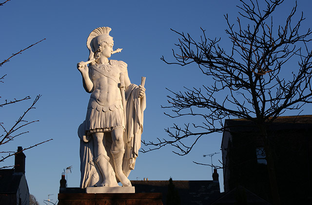 Hadrian statue, Brampton, near to Brampton, Cumbria, Great Britain.